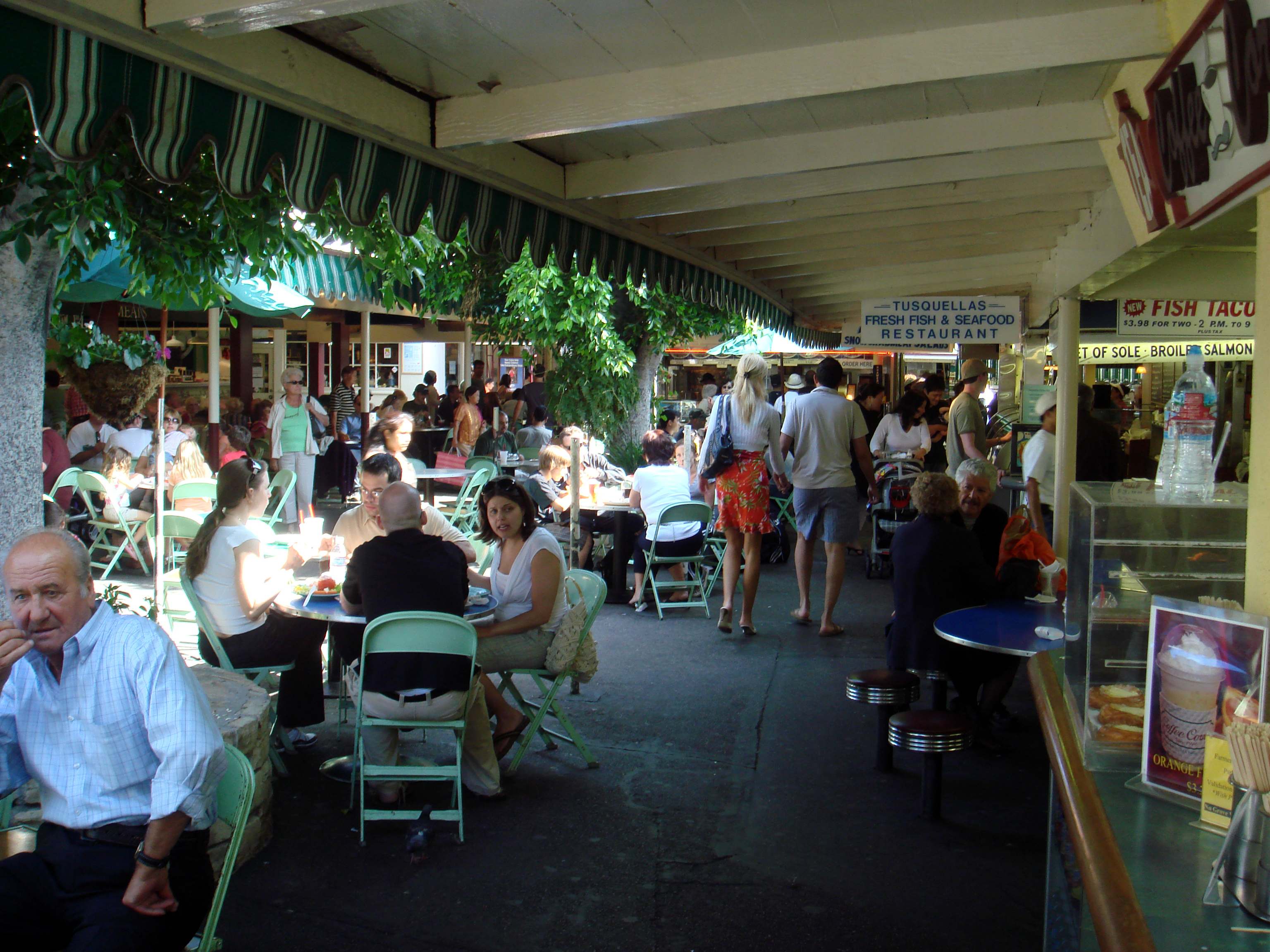 Typical day inside the alleys of the Farmers Market in Los Angeles, California.